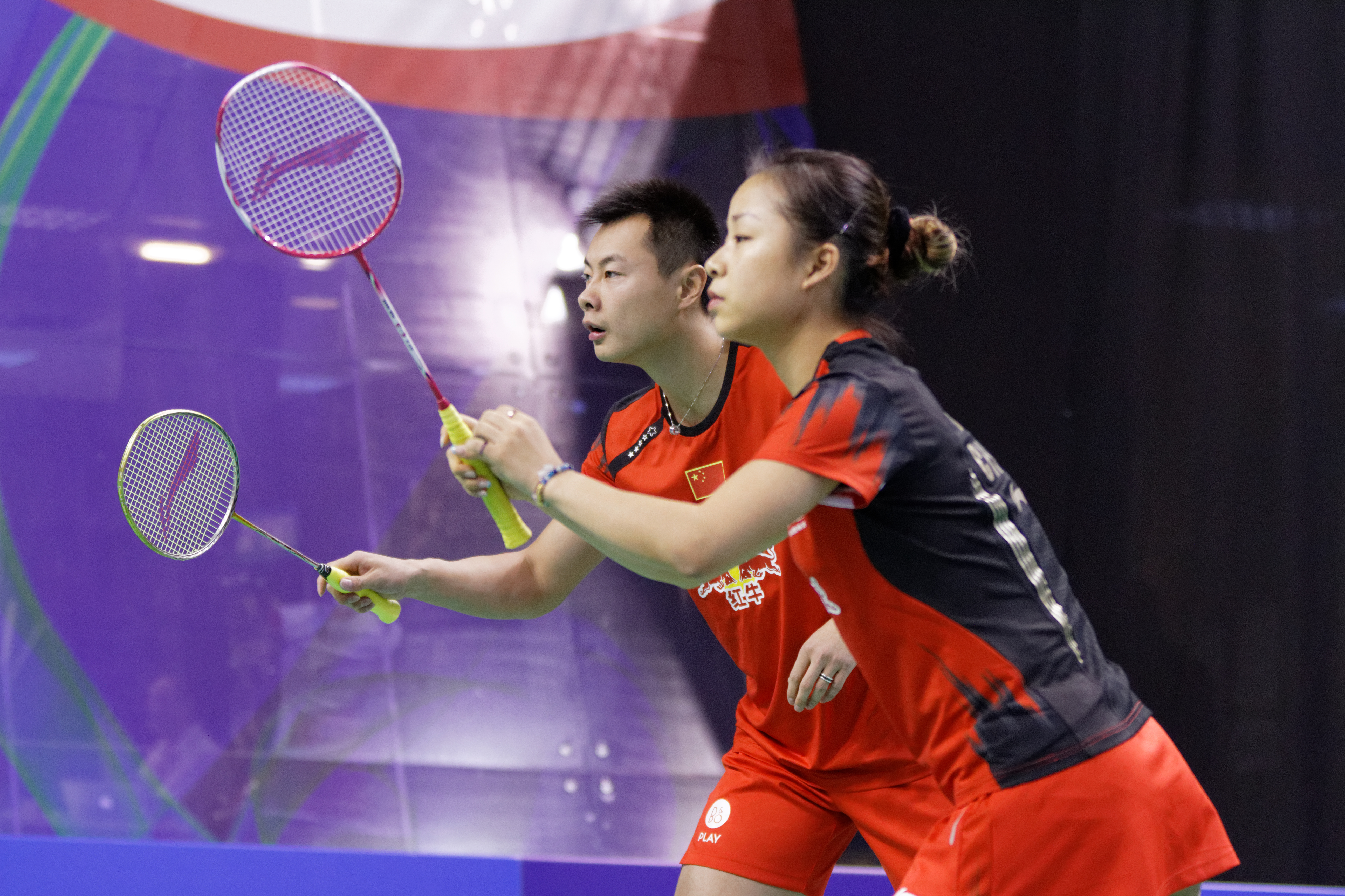 2013 French open. Mixed's doubles eightfinal. Lee Hei-chun - Chau Hoi Wah vs Xu Chen - Ma Jin.